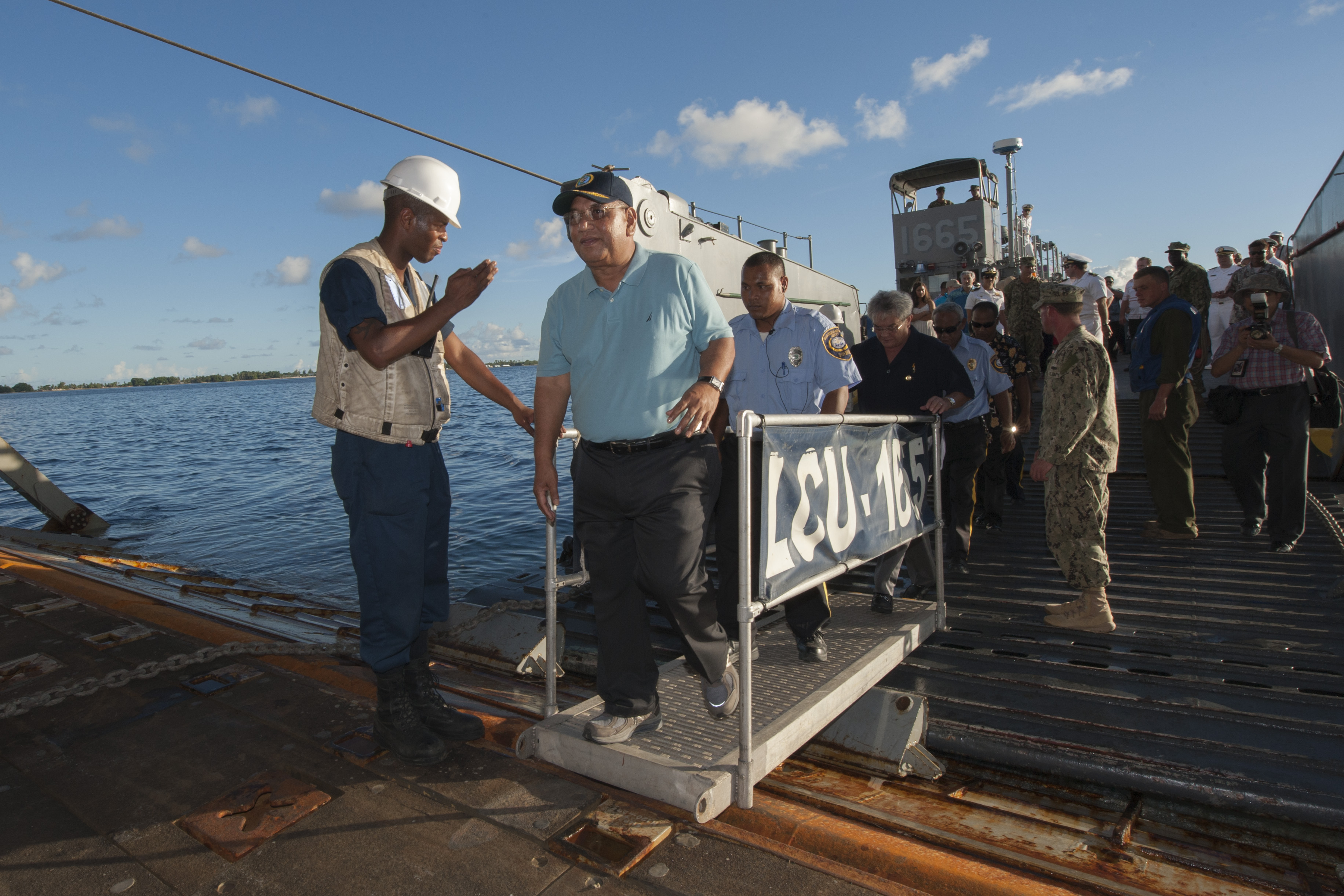 MAJURO, Marshall Islands (July 4, 2013) President of the Republic of the Marshall Islands Christopher J. Loeak boards the amphibious dock landing ship USS Pearl Harbor (LSD 52) for a Fourth of July reception. Pearl Harbor is in the Marshall Islands for Pacific Partnership 2013, a mission that brings host nation governments, U.S. military, partner nation militaries and non-governmental organization volunteers together to conduct disaster-preparedness projects and build relationships in the Indo-Asia-Pacific region to better respond during a crisis. (U.S. Navy photo by Mass Communication Specialist 1st Class Lowell Whitman/Released) 130704-N-HA376-035 Join the conversation navylive.dodlive.mil